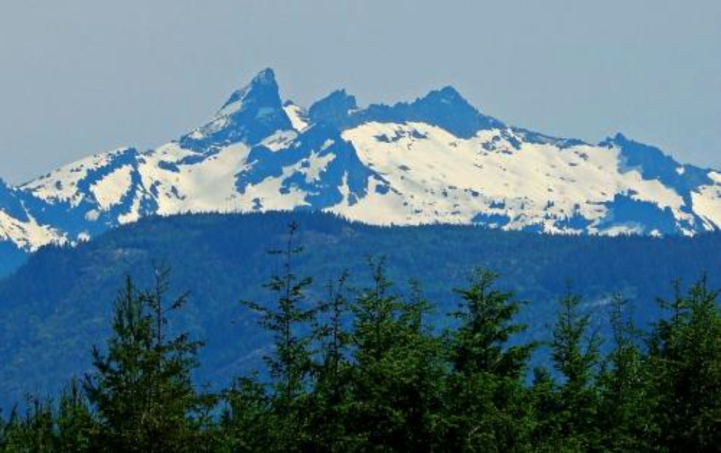 Mount Chaval seen with long lens from the town of Darrington, WA.